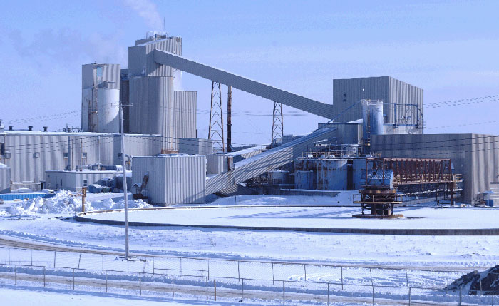 Processing facilities at the Doyon Mine in Québec, Canada